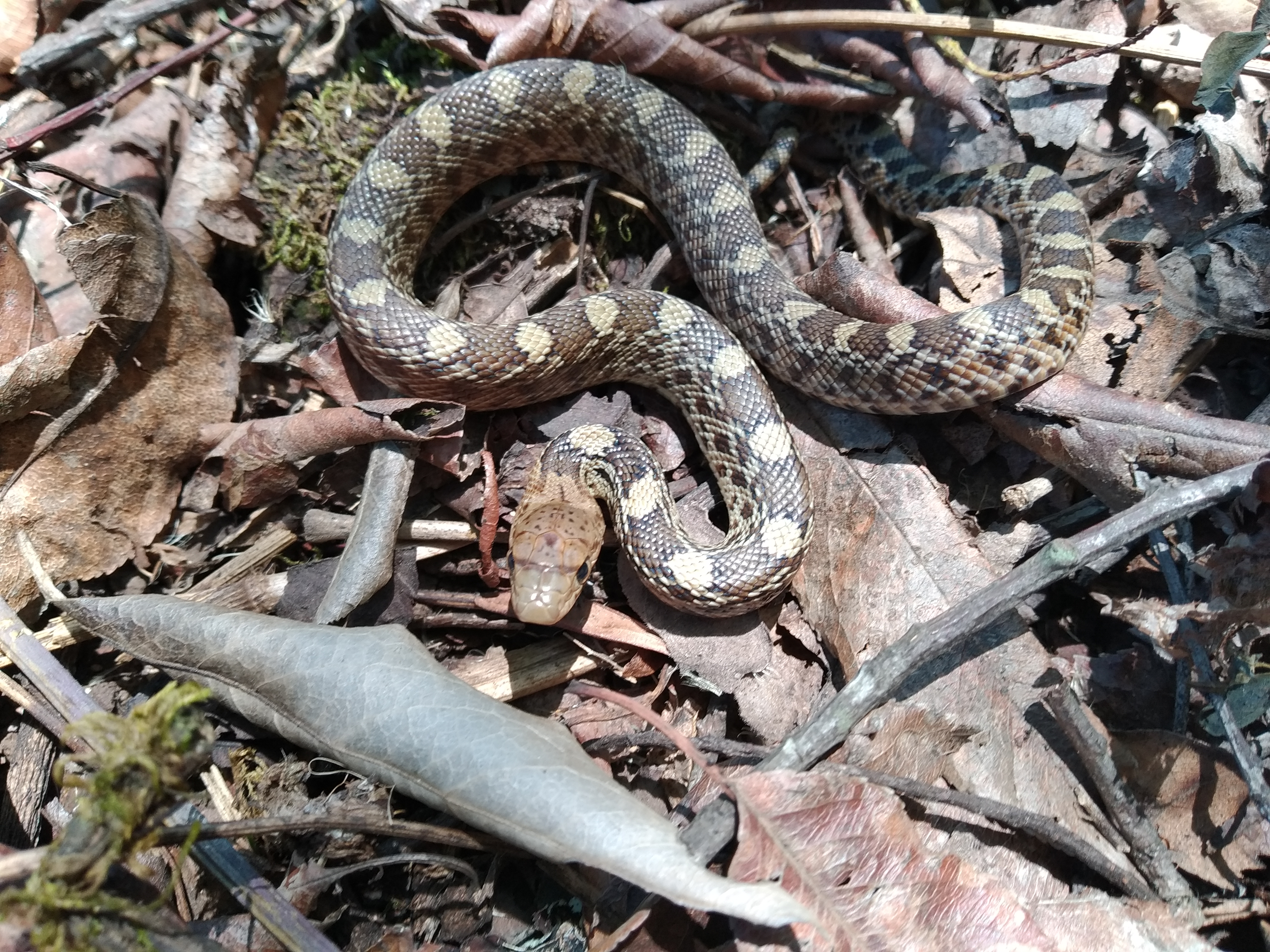 young Pituophis deppei